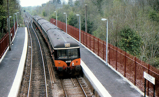 CIÉ push-pull train for former 2600 Class railcars at Clonsilla, Dublin, Ireland